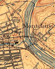 Section of 1906 USGS 15 minute series topographic map, Phoenixville Quadrangle, showing Mont Clare, Pennsylvania. Image has been cropped and iPhoto's general enhancement applied.